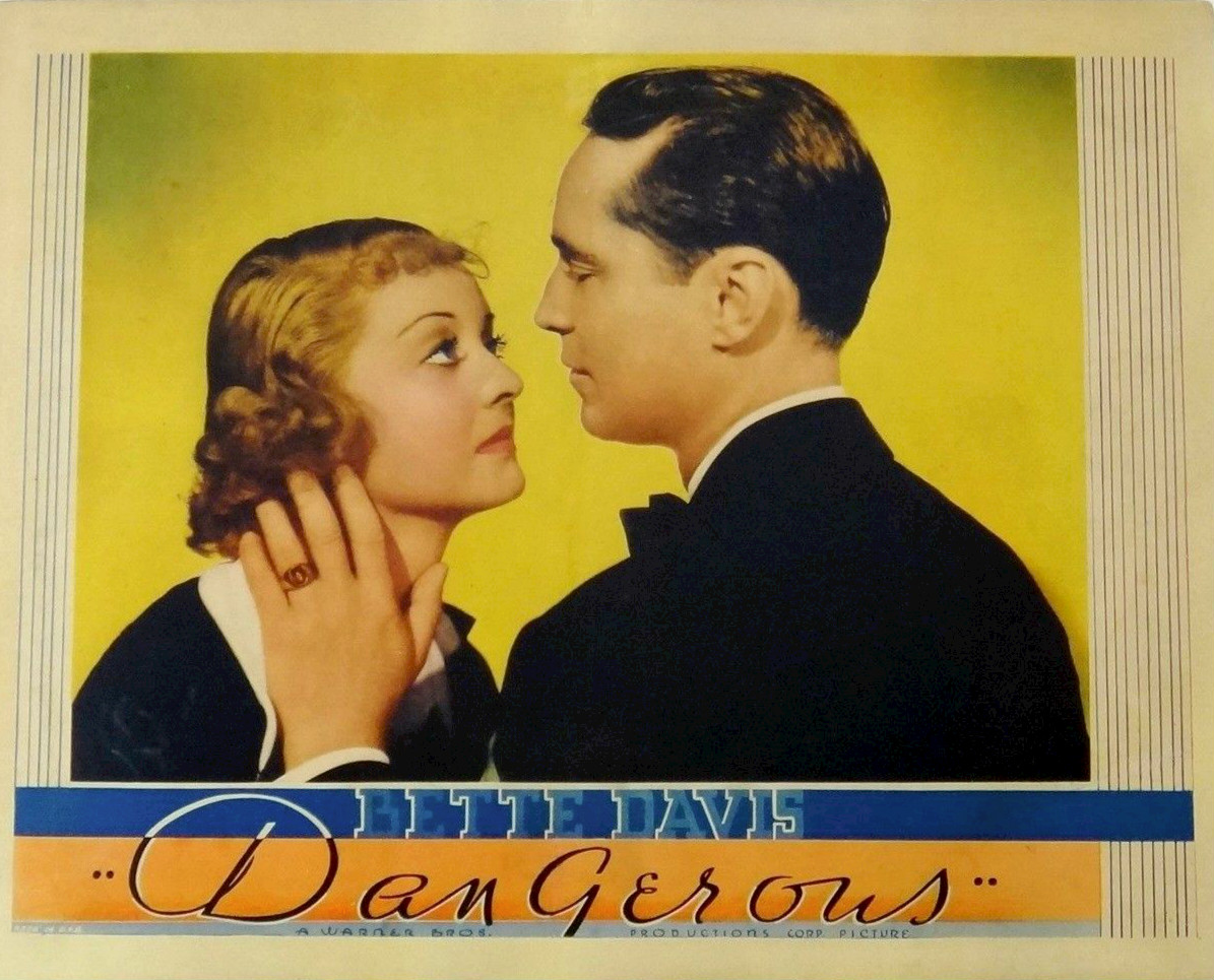 Lobby card for the American film Dangerous (1935).